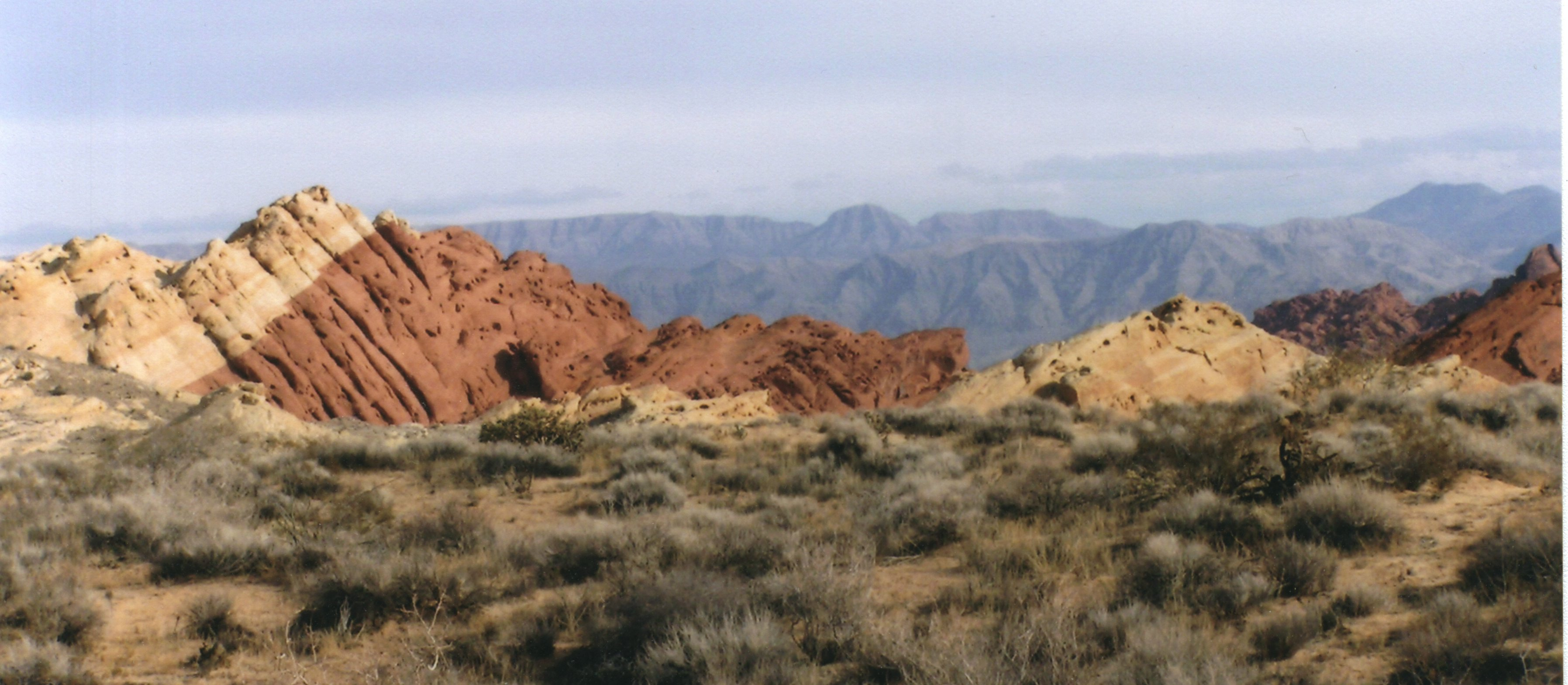 Photo of red rock formation near Redstone picnic area, Lake Mead National Recreation Area. Photo taken by me, January 2004